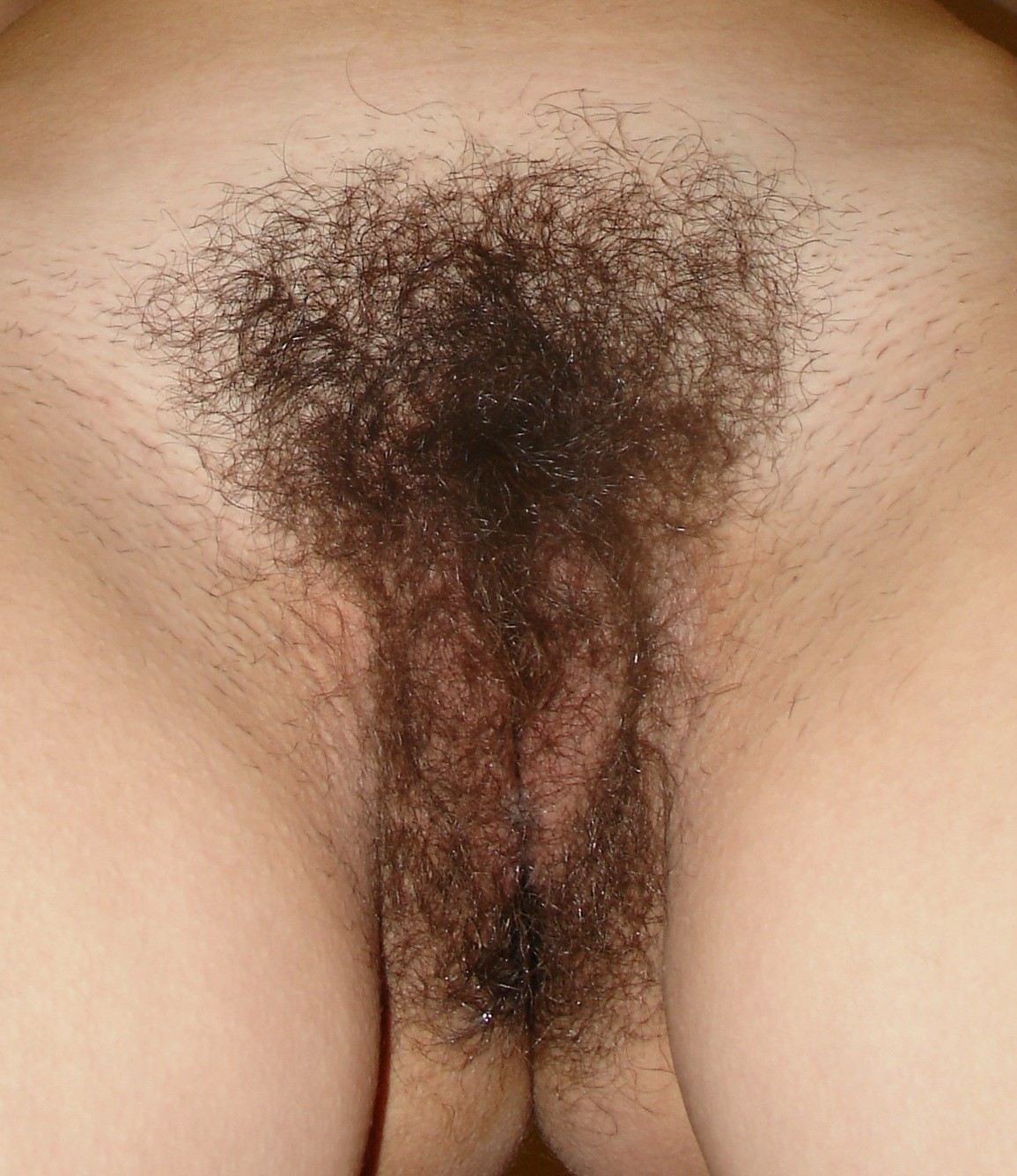 Female genitals with hair